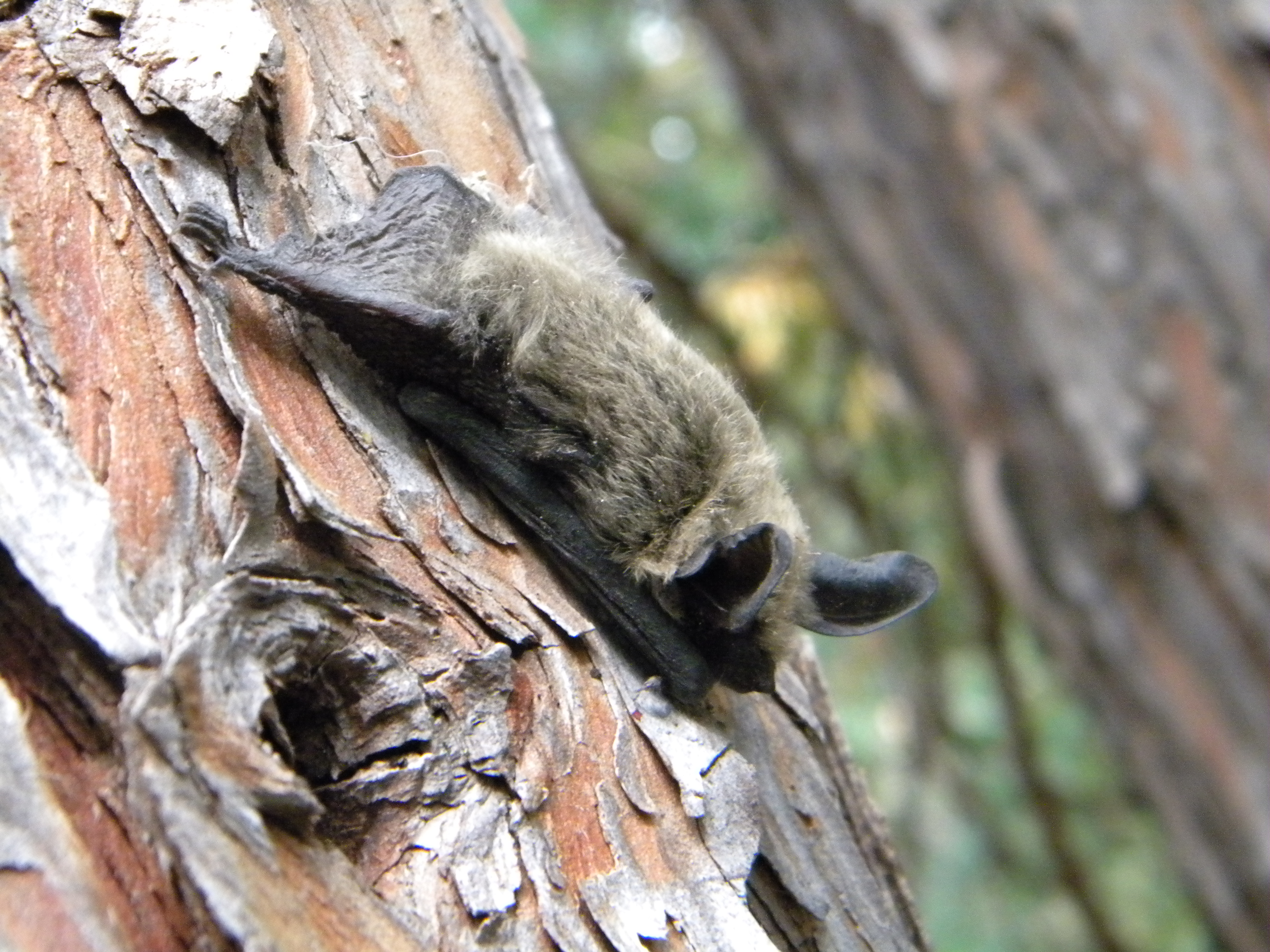 Myotis species, Likely a western long-eared bat (Myotis evotis)